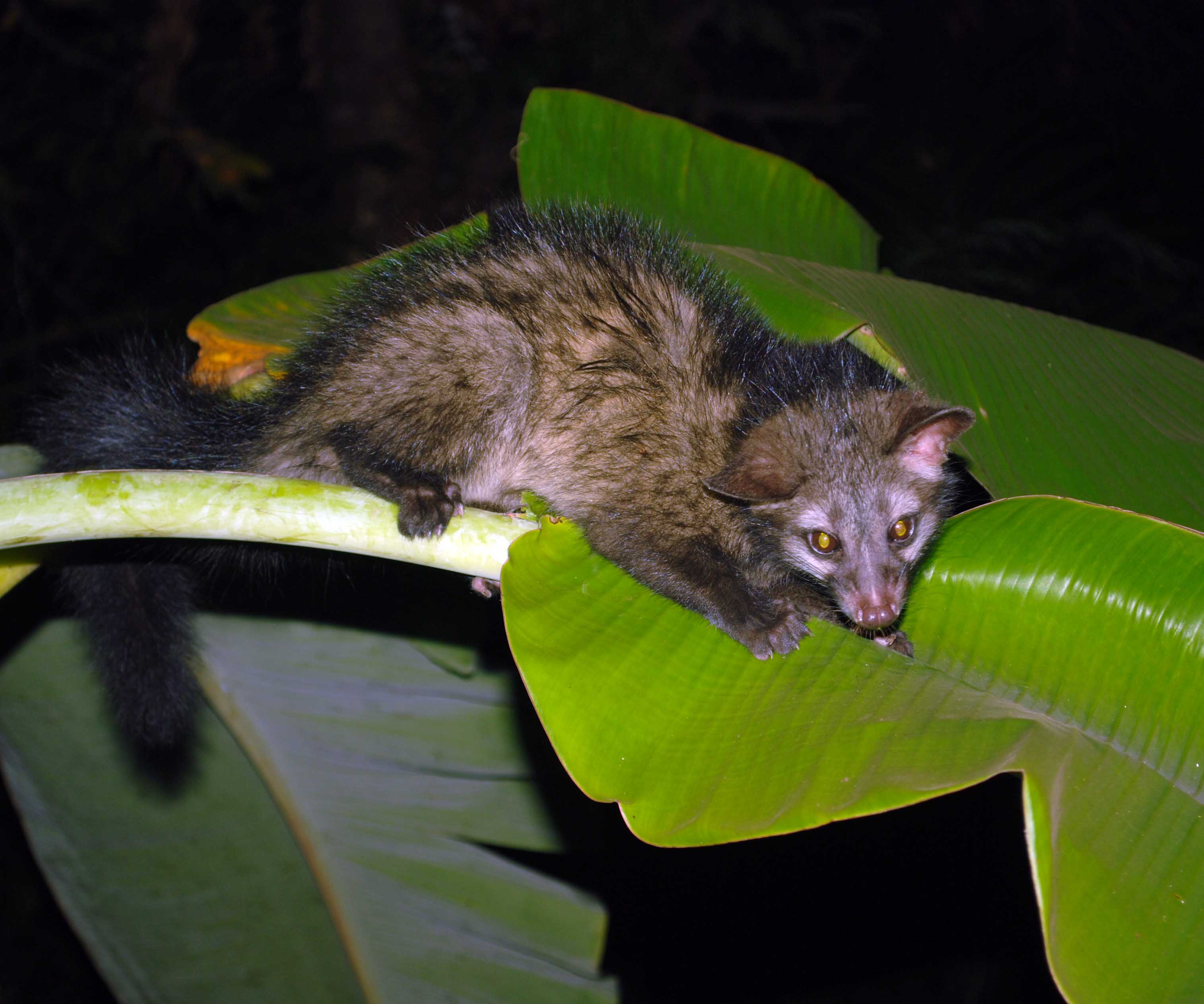 Asian palm civet (Paradoxurus hermaphroditus)